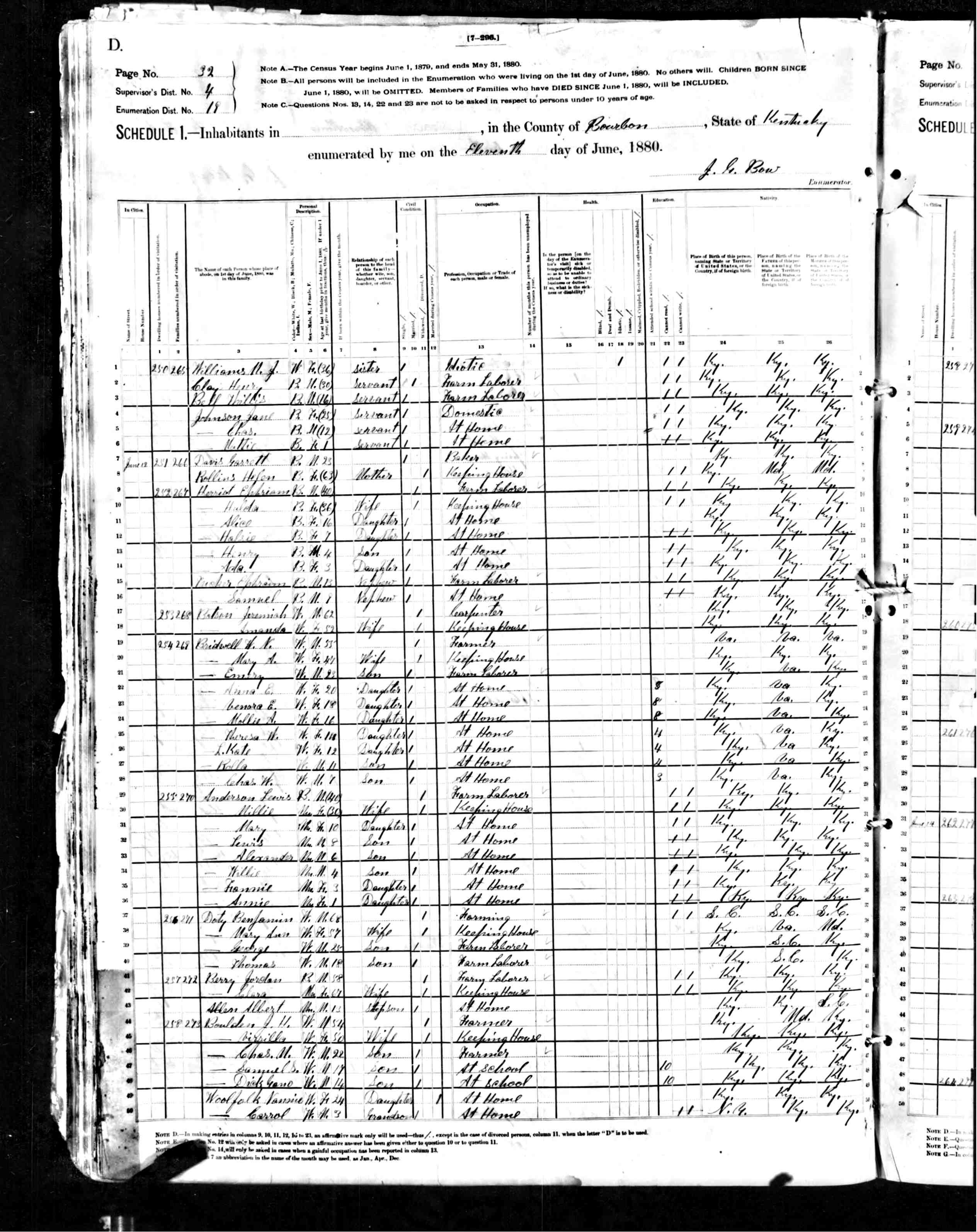 Alma Bridwell White in Millersburg in the 1880 US Census.